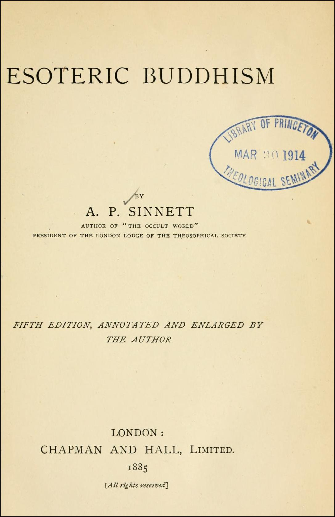 A Book Esoteric Buddhism. Title page to 5th edition.